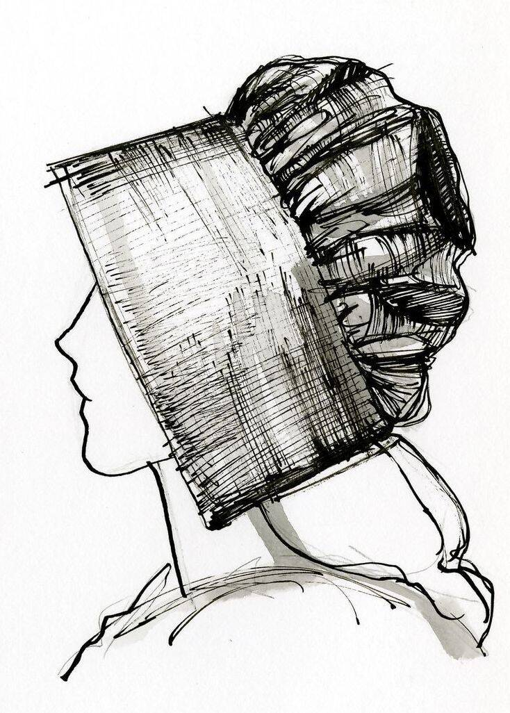 The description of the concept in this drawing is: Close-fitting caps made in a variety of shapes and sizes and worn at various periods by men and women, sometimes surmounted by a hat or headdress. (AAT)